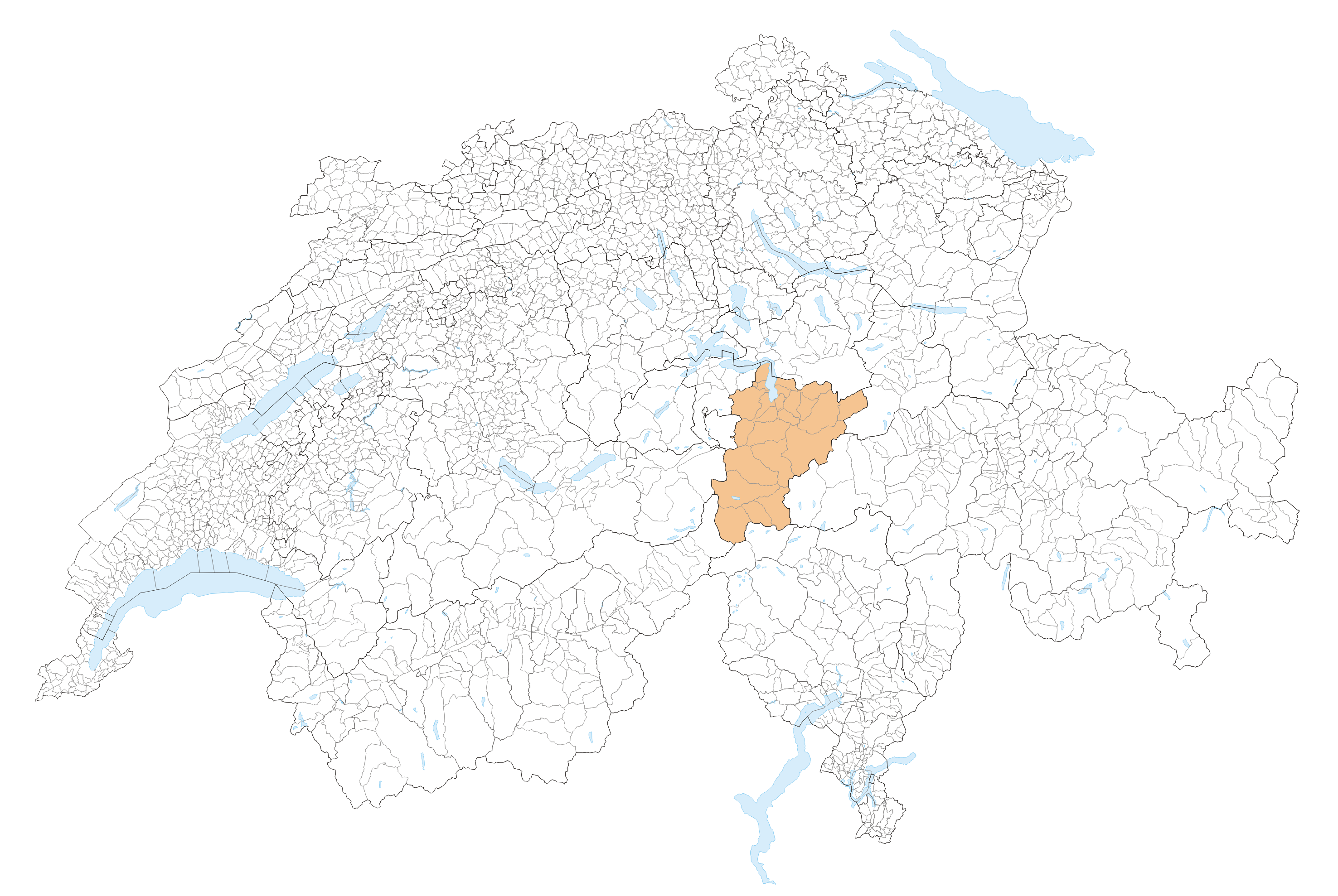 Kanton Uri